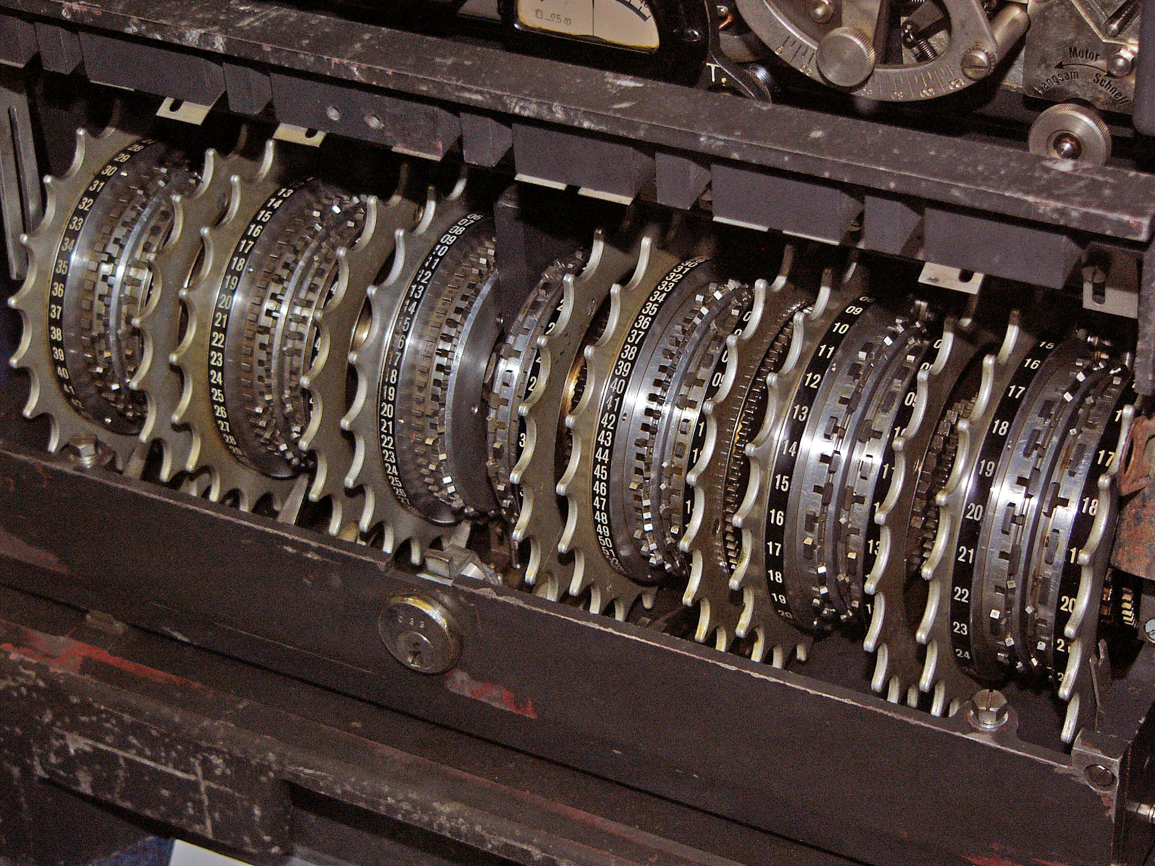 Lightened version of Image:SZ42-6-wheels.jpg The Lorenz machine was used by the Germans to encrypt high-level teleprinter communications. It contained 12 wheels with a total of 501 pins.